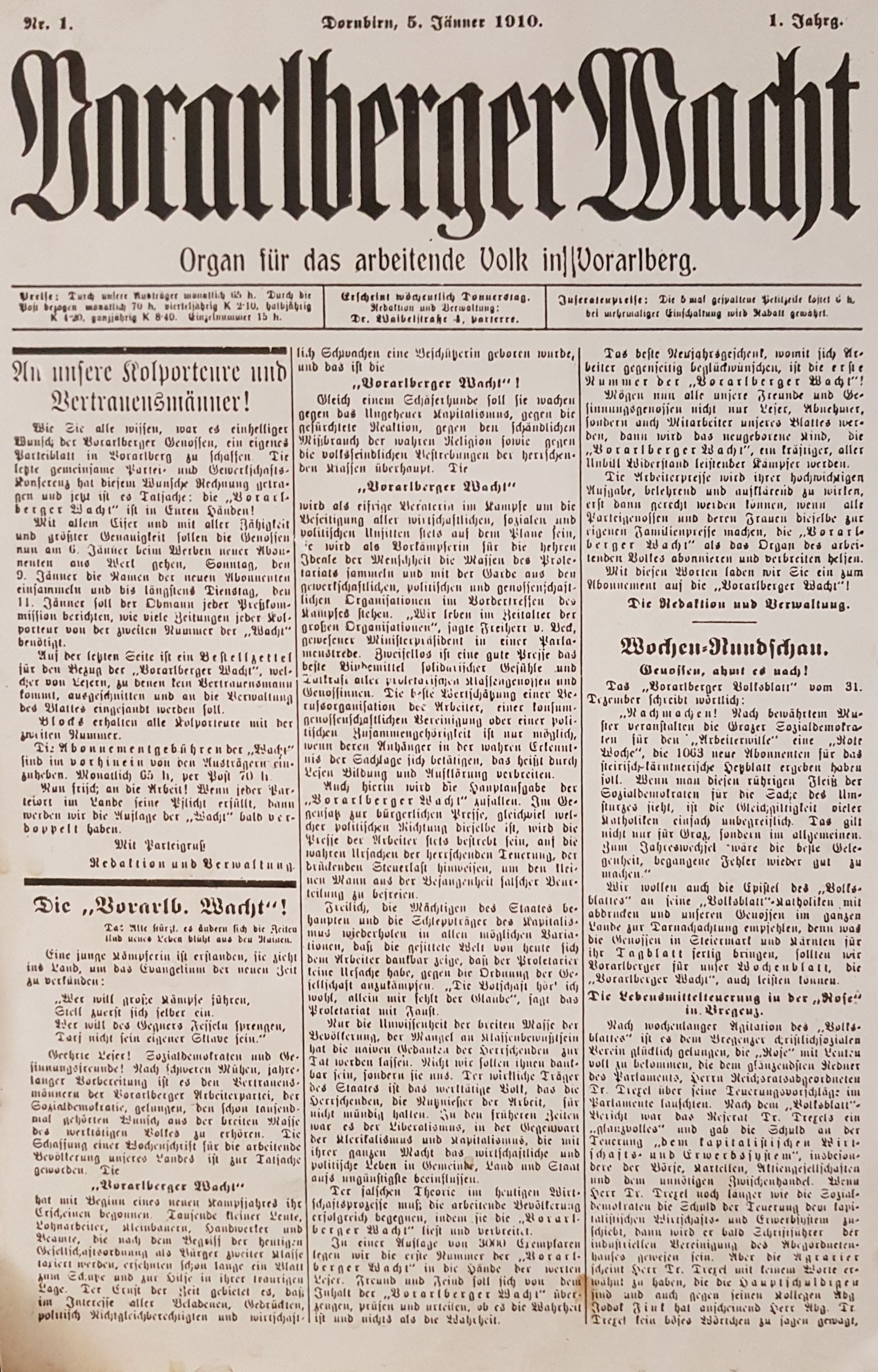 First edition of the "Vorarlberger Wacht". Exhibition of Volkshilfe Vorarlberg.